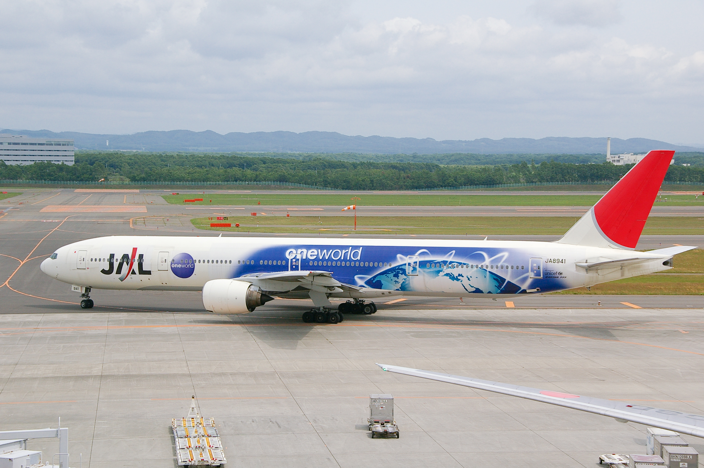 Photograph of Japan Airlines' Boeing 777-300, with special oneworld livery, taken from the observation deck of New Chitose Airport passenger terminal building in Chitose, Hokkaido, Japan.